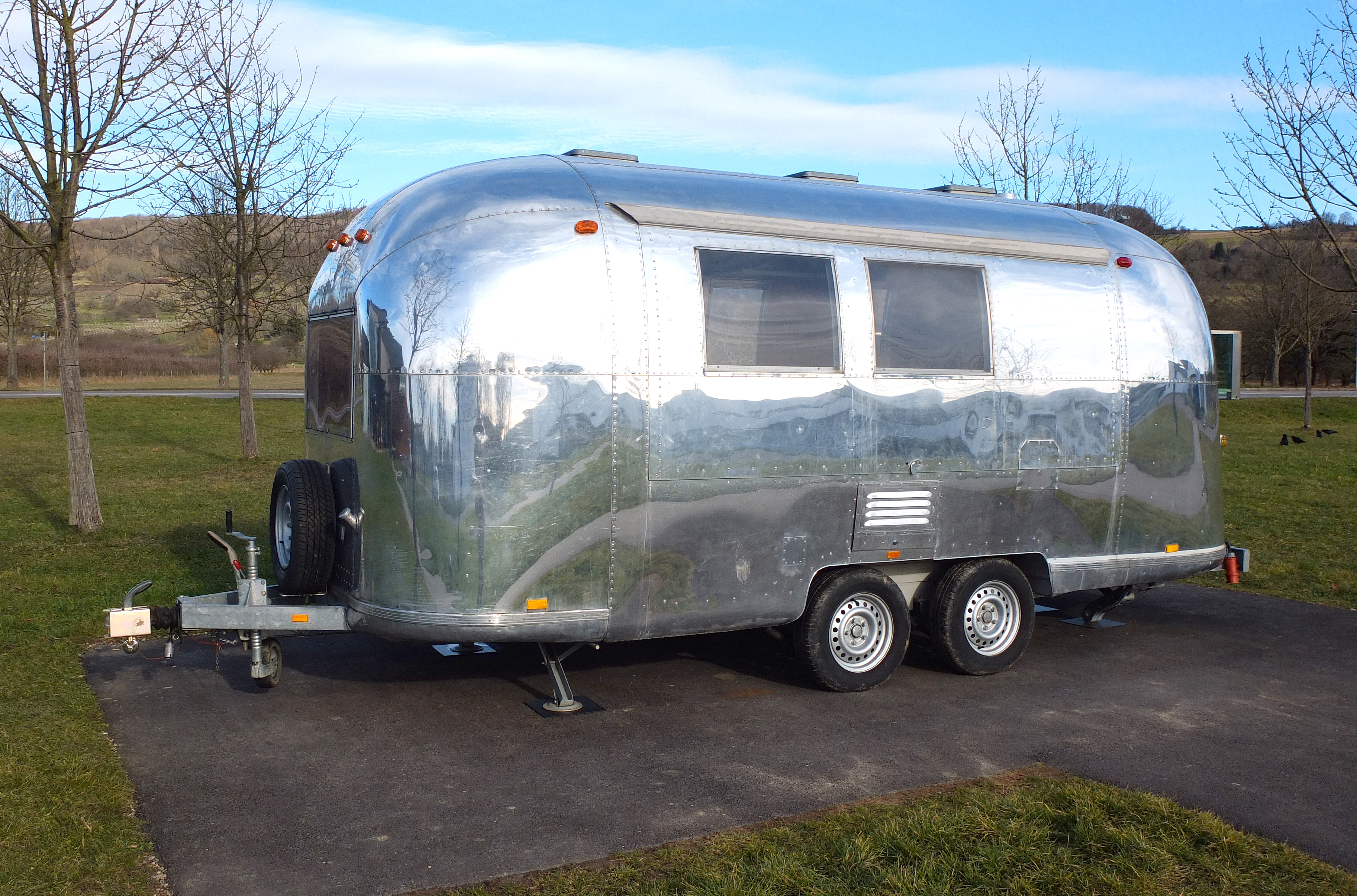 Old caravan at Vitra Design Museum, Weil am Rhein Germany